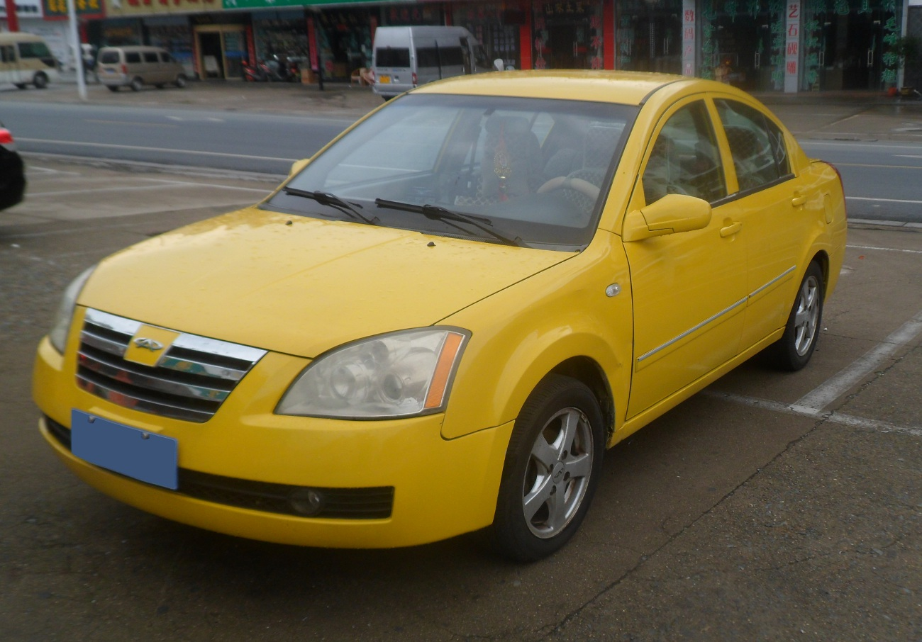 Chery A5 photographed in Tangkou, Anhui province, China.